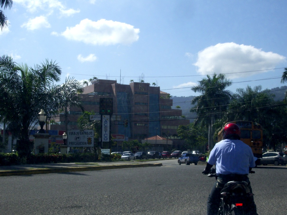 Calle centrica de San Pedro Sula Banco al fondo